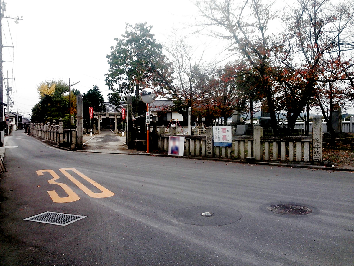 "Konpira Daigongen"at Chayamachi, Kurashiki, Okayama, Japan.(The Chyamachi branch of Kotohira-gū)